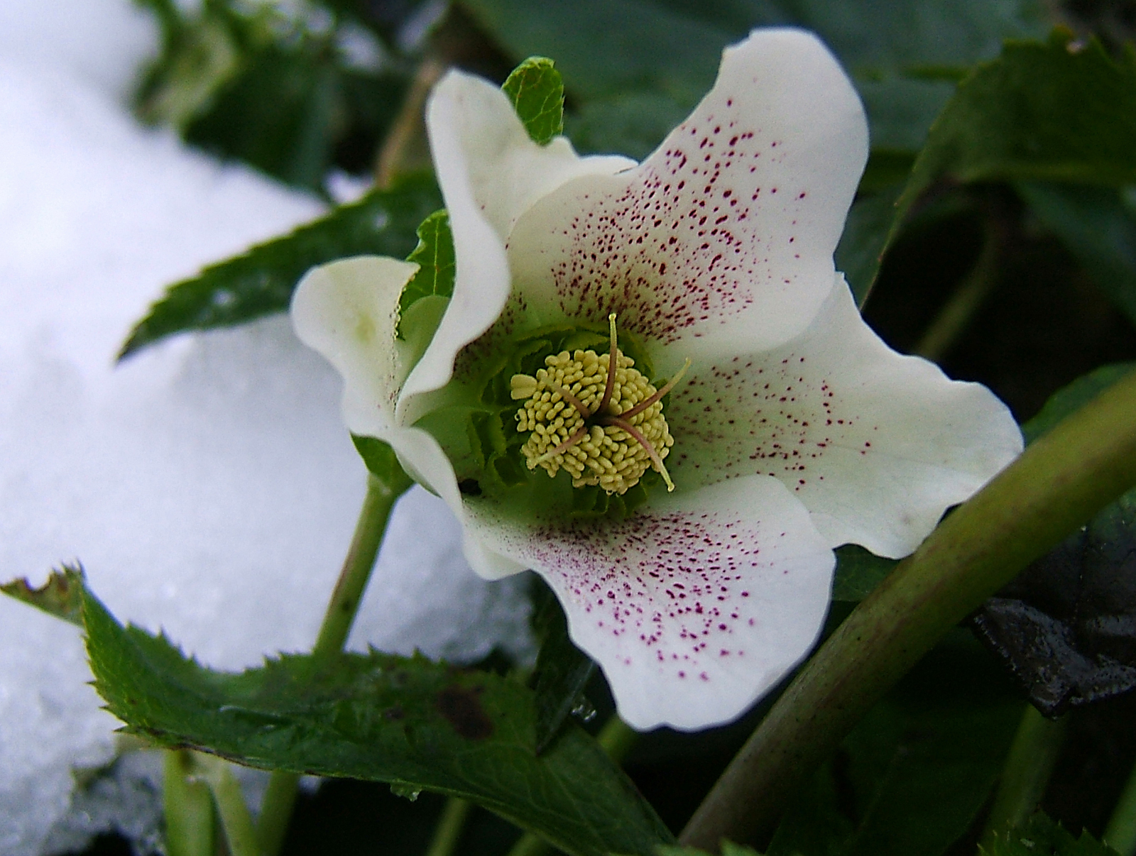 Plants growing in a half shady place at 240 m in Rems Valley, a warm viniculture region in Baden_Württemberg, Germany.